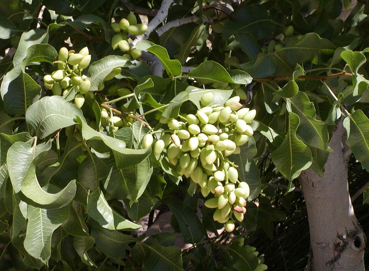 Photo of Pistacia vera 'Kerman' (Pistachio) at the Desert Demonstration Garden in Las Vegas